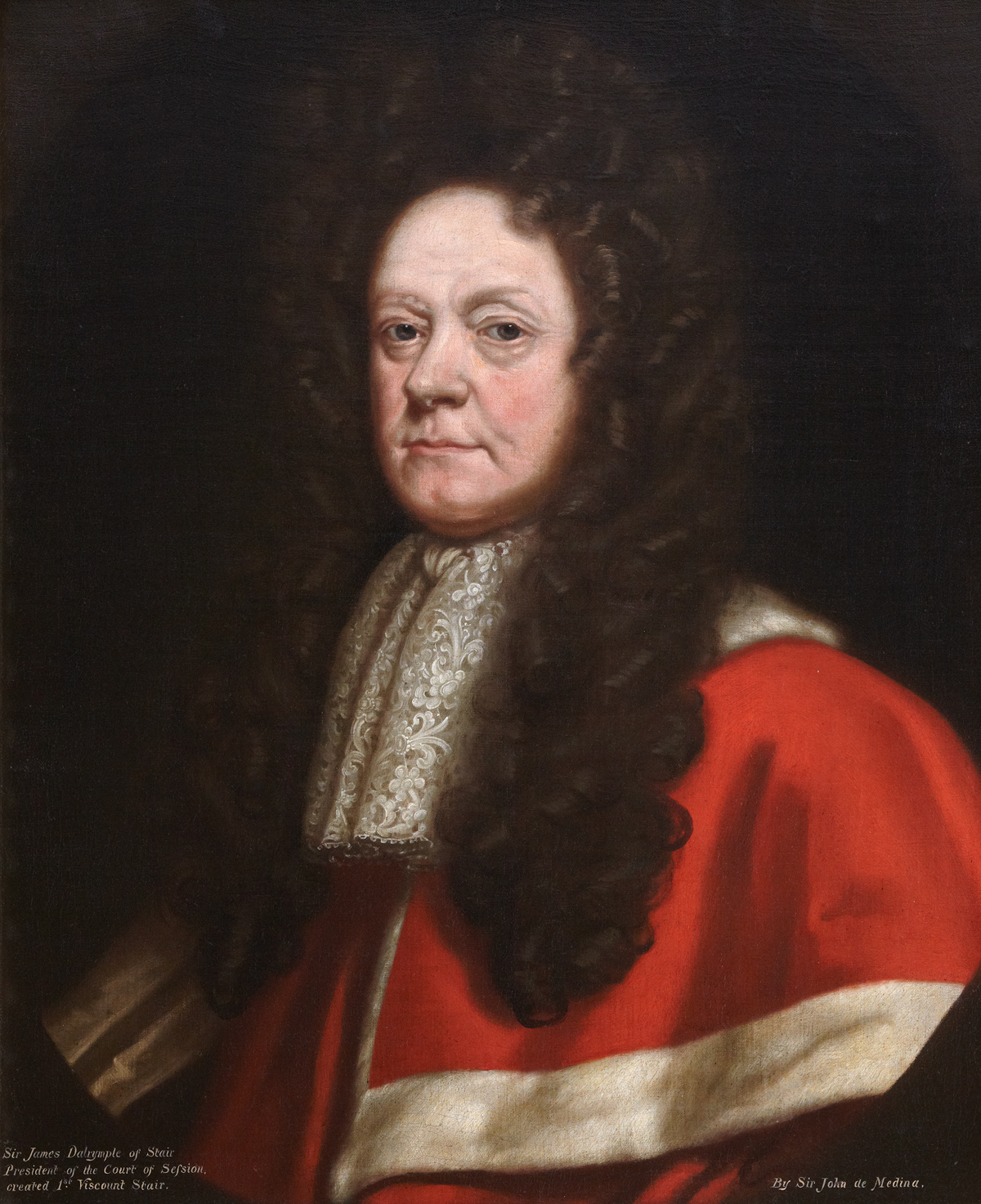 de Medina, John Baptist; Sir James Dalrymple of Stair, President of the Court of Session, Created 1st Viscount Stair; The National Trust for Scotland, Newhailes